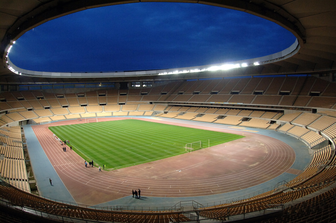 Estadio Olímpico de La Cartuja in Seville, Spain